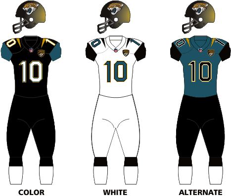 Uniforms for the Jacksonville Jaguars to be worn during the 2013 season.